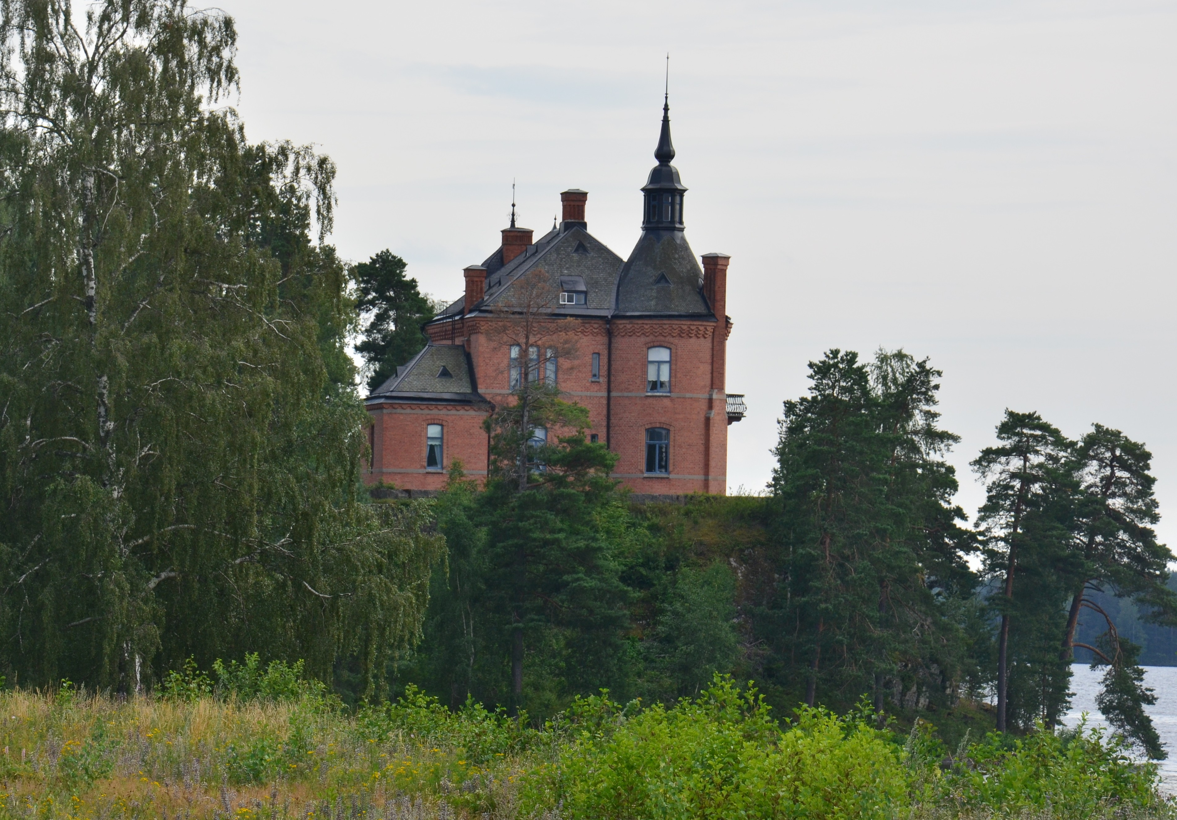 Villa UIvaklev i Ängelsberg, sedd från norr